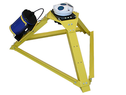 An AWAC 1 MHz mounted on a bottom frame along with a battery canister